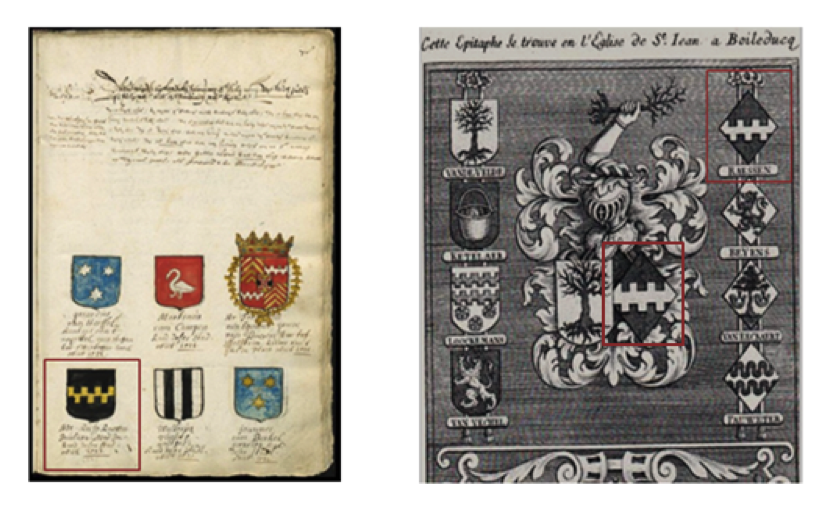 afbeelding 3 Raessens